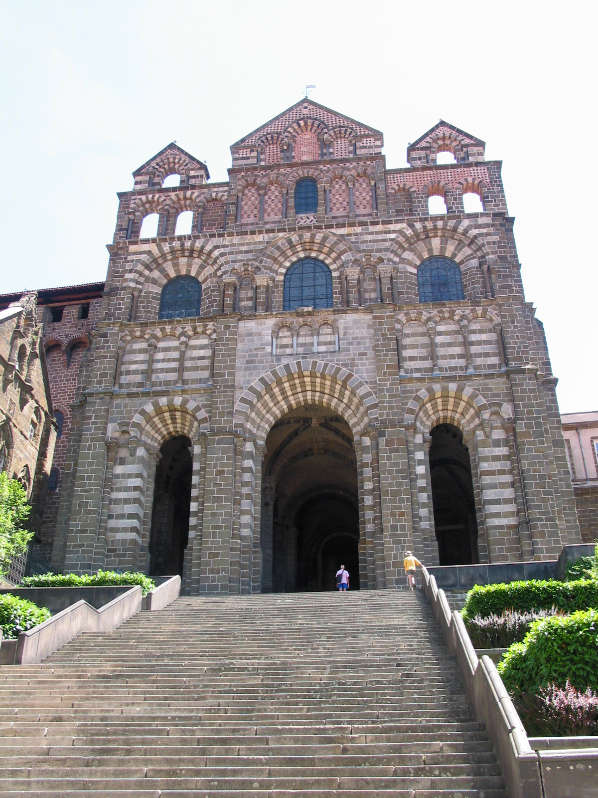 Le Puy-en-Velay (Haute-Loire - France), la cathédrale Notre-Dame (XIIe siècle).